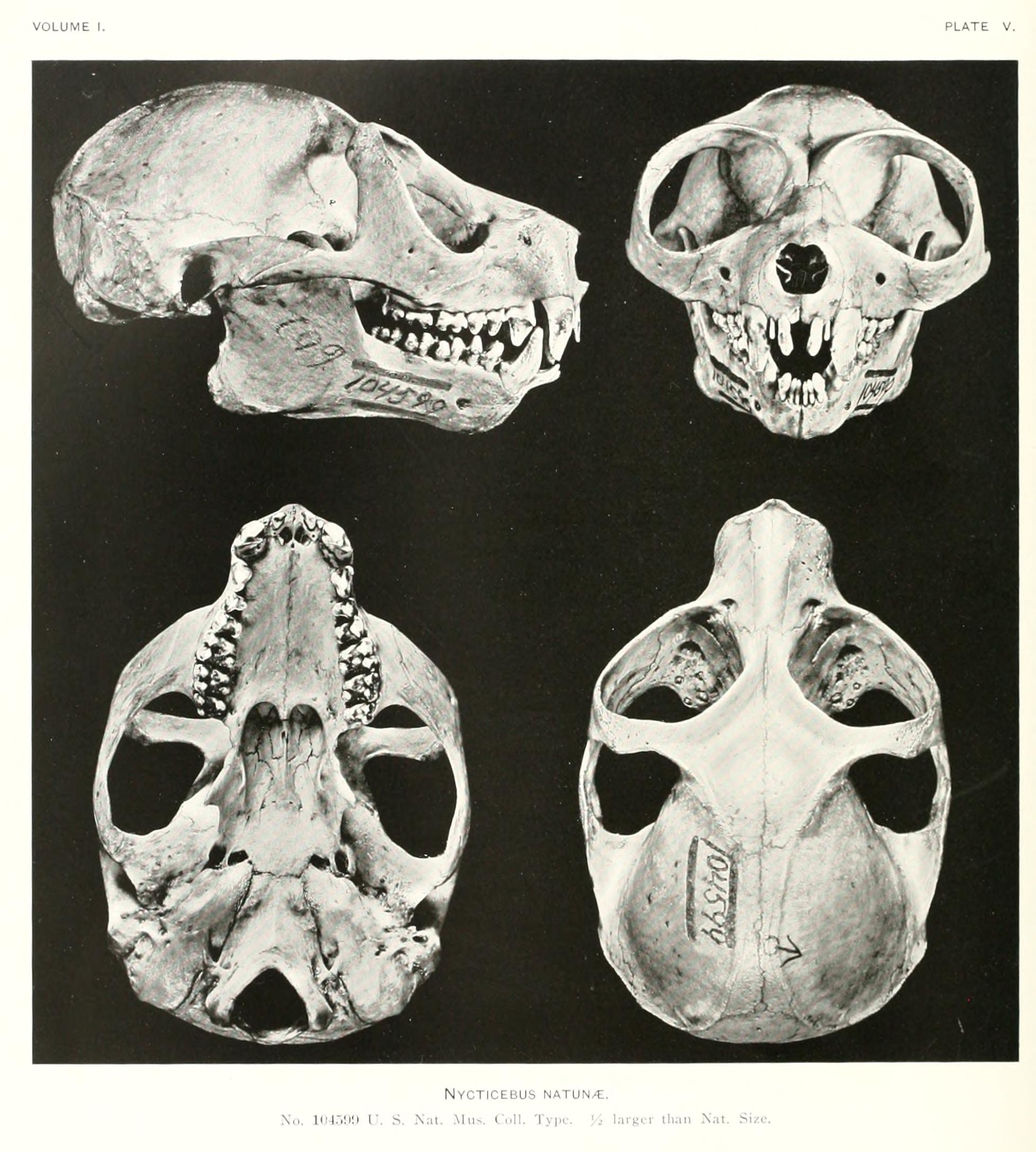 Sunda slow loris (Nycticebus coucang) skull photographs from four sides.